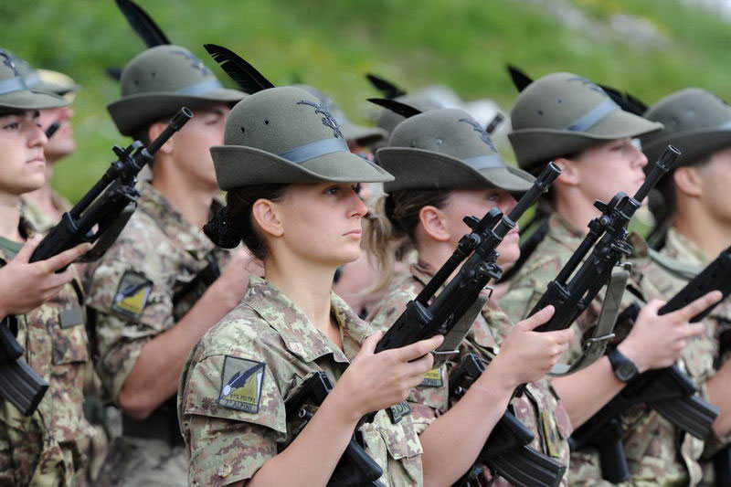 Soldiers of the Alpini Battalion "Feltre", 7th Alpini Regiment of the Italian Army during the Falzarego 2011 exercise.